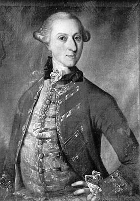 whereabouts unknown at the moment